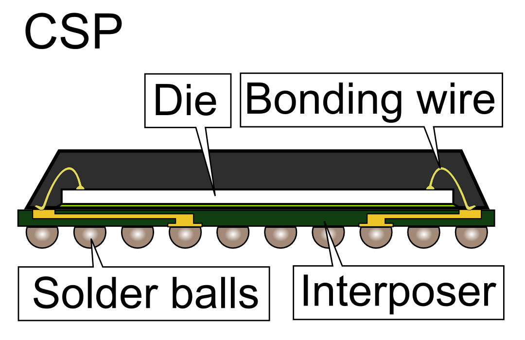 CSP package sideview